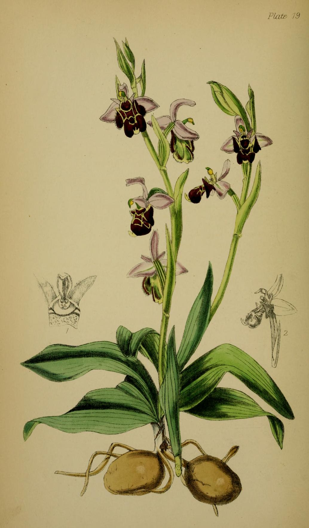 Illustration of Ophrys scolopax